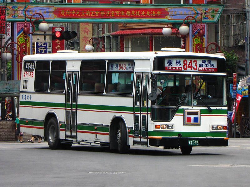 471-FB